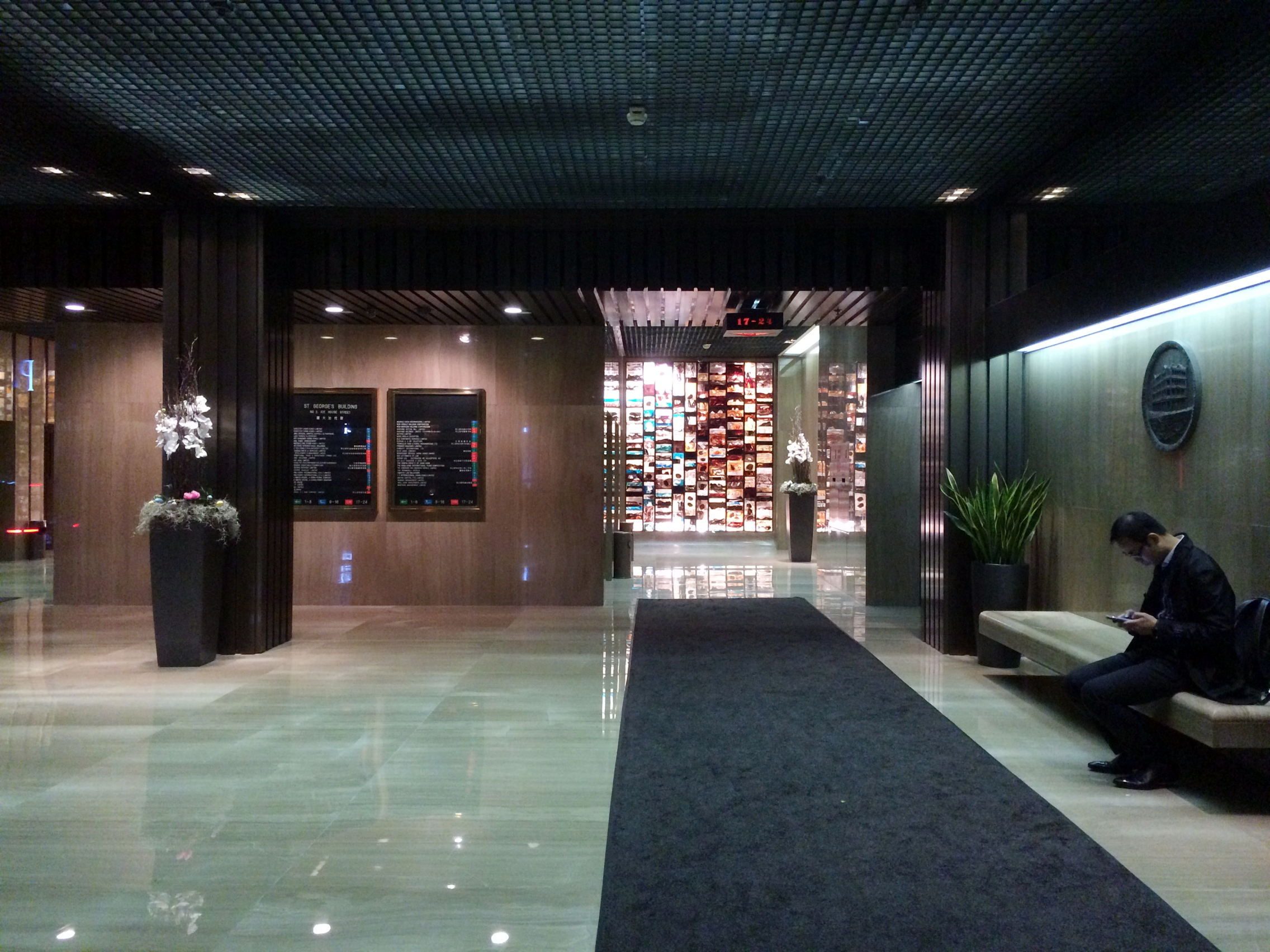 St. George's Building Office Lobby